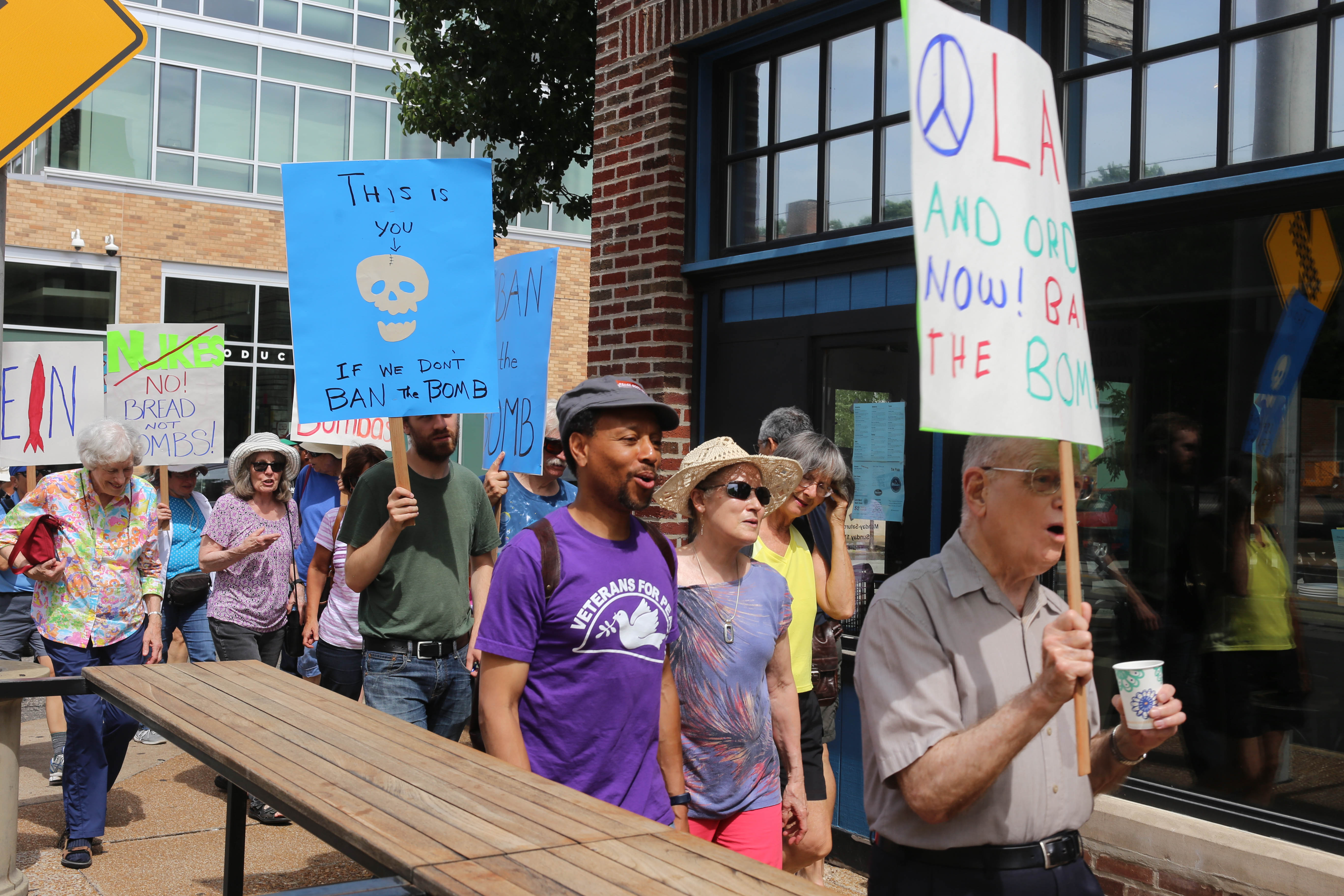 Ban the Bomb Rally 2017